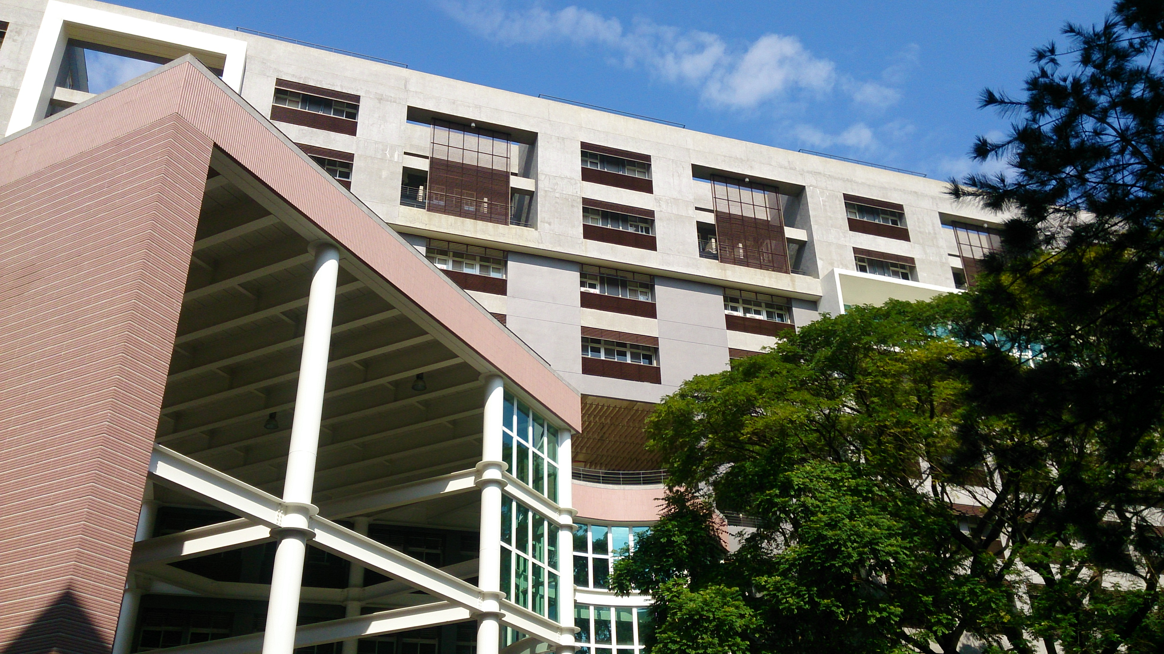 The building of College of Liberal Arts, NCHU